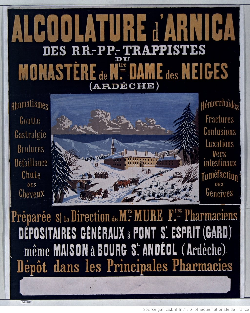 Poster advertising the sale of Arnica montana tinctures by the trappist monks of Notre-Dame des Neiges Abbey (Saint-Laurent-les-Bains-Laval-d'Aurelle, Ardèche, France)